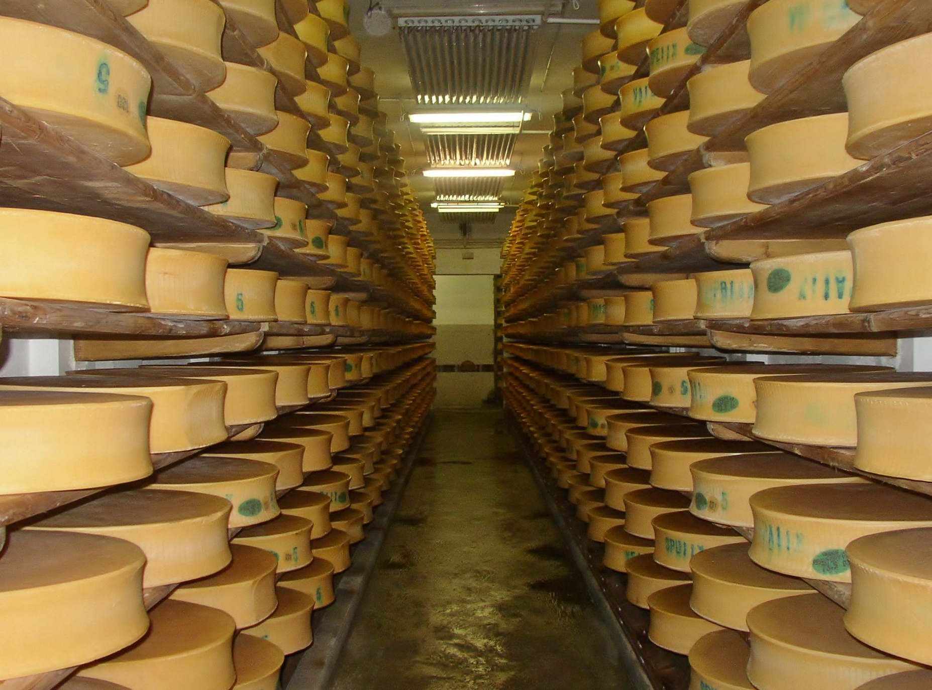 Cellar where are stocked Beaufort round cheeses, in commune of Beaufort-sur-Doron in Savoie, France.